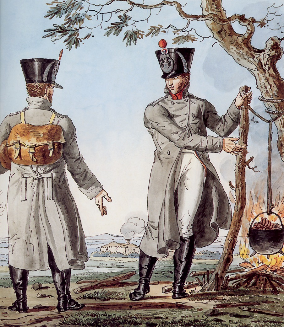 Part of a series chronicling the uniforms of Napoleon's Grande Armée.